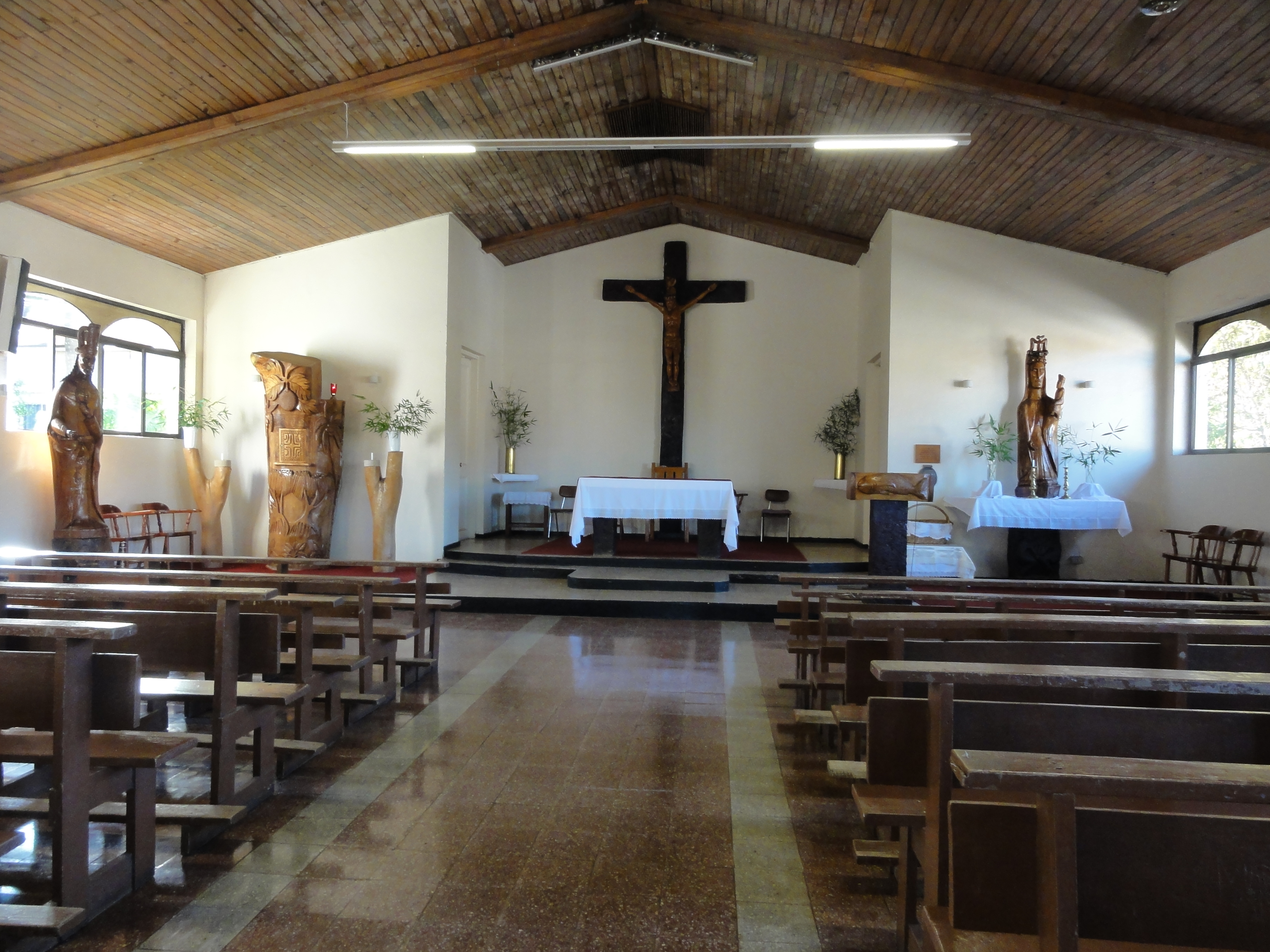 Interior view of the Catholic Church in Hanga Roa, Rapa Nui (Easter Island)